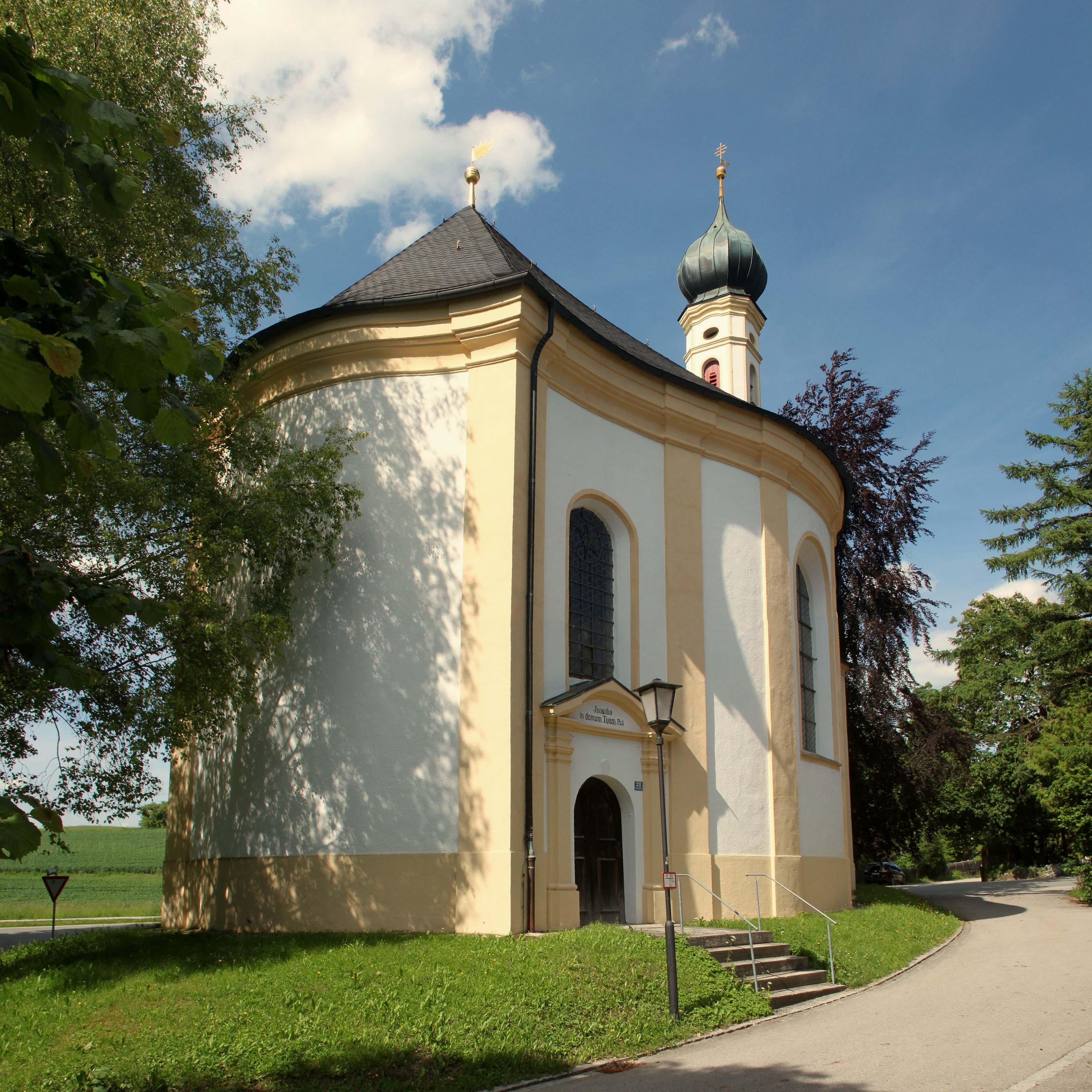 Kleinhelfendorf: Chapel commemorating the torture of Emmeram of Regensburg.